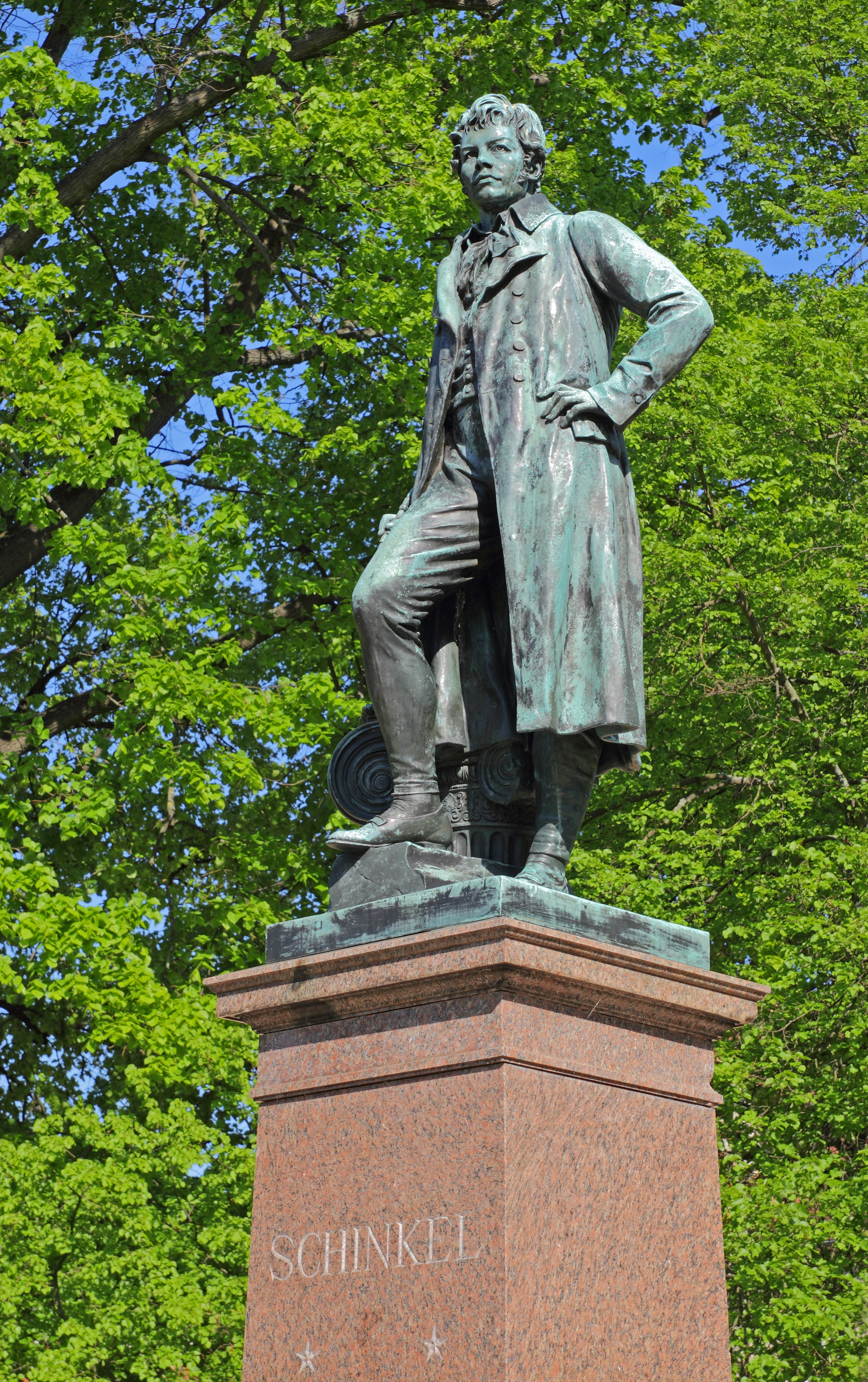 Monument to Karl Friedrich Schinkel in Neuruppin, Brandenburg, Germany